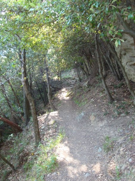 Vista del sentiero per Punta Manara